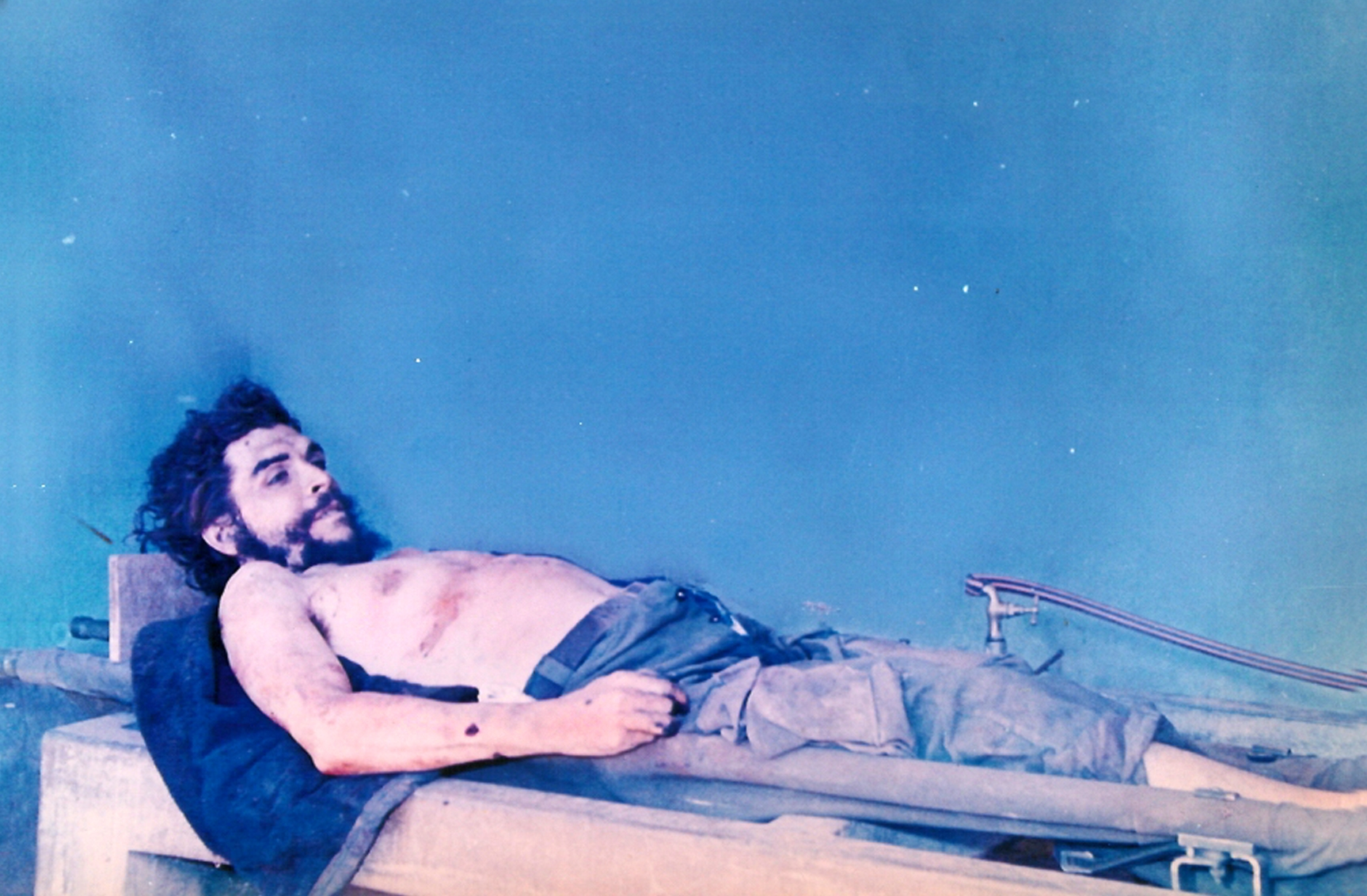 Che Guevara's corpse on display in Vallegrande, Bolivia. Image taken by covert CIA operative.